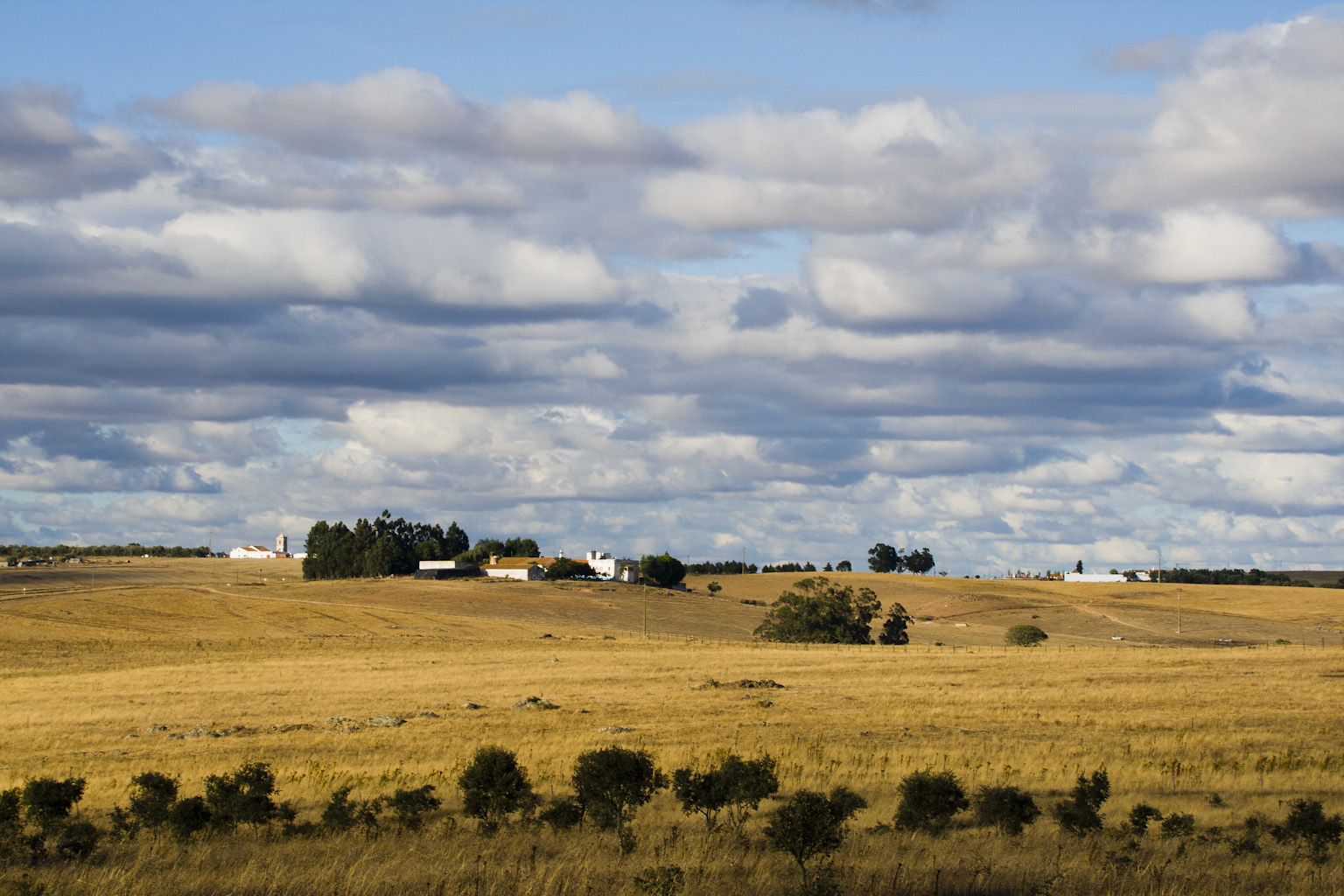 Portugal. Typical Alentejo landscape